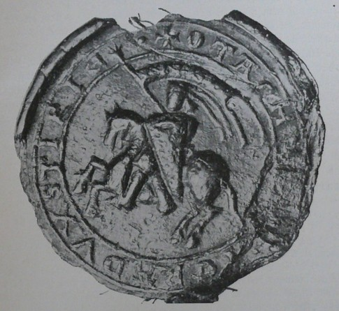 Ottokar IV of Styria